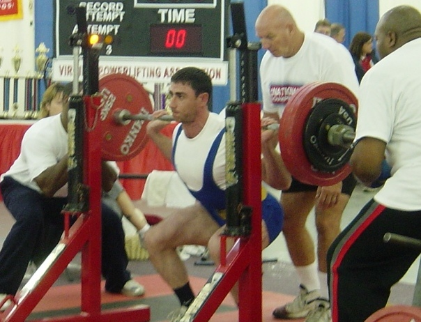 2002 Laughlin